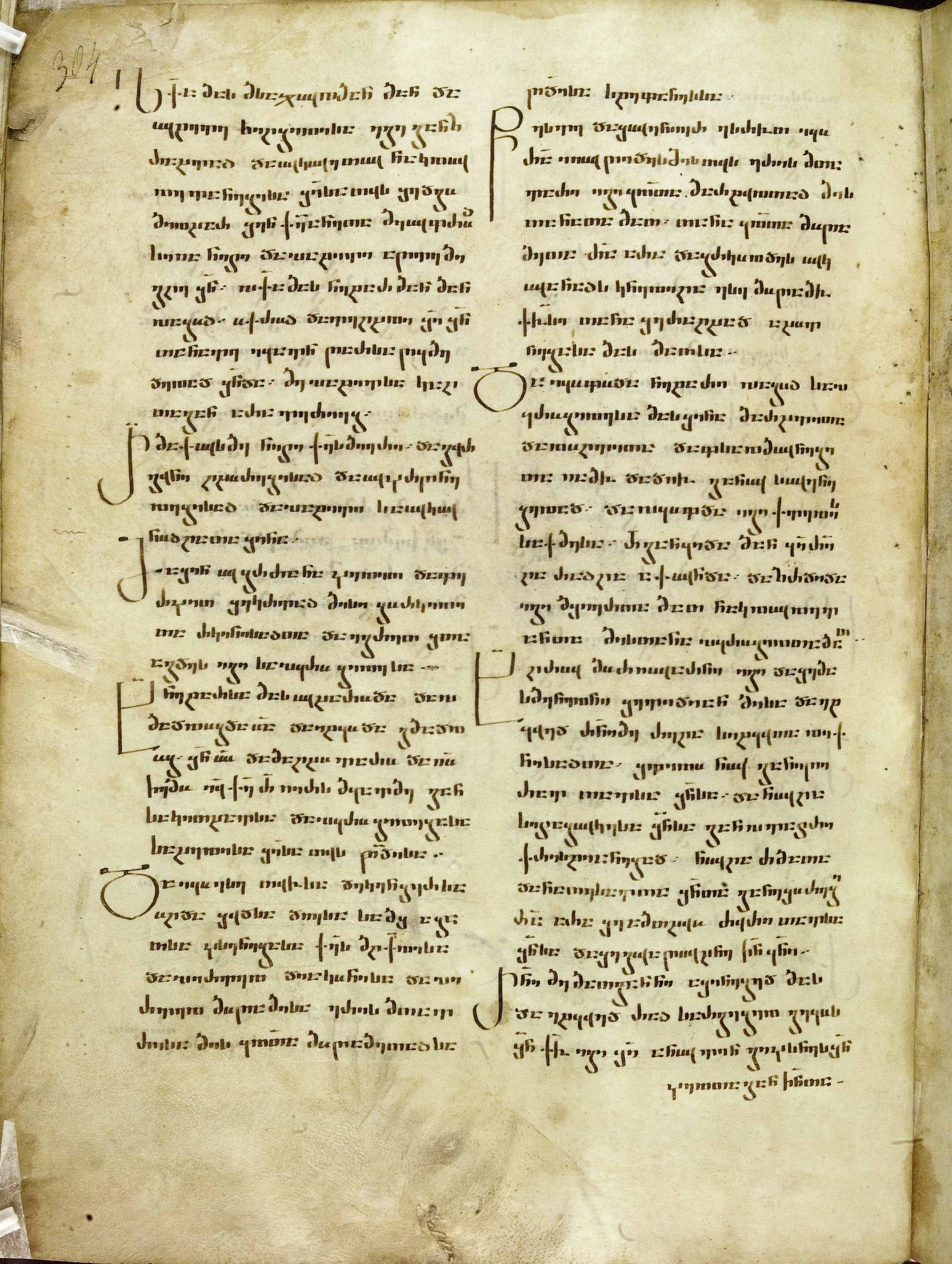 A folio from the 10th-century Georgian homiliary (polykephalon) from Parkhali monastery, containing the earliest extant copy of the Martyrdom of St. Abo of Tbilisi". (Georgian National Center of Manuscripts, MSS A-95)